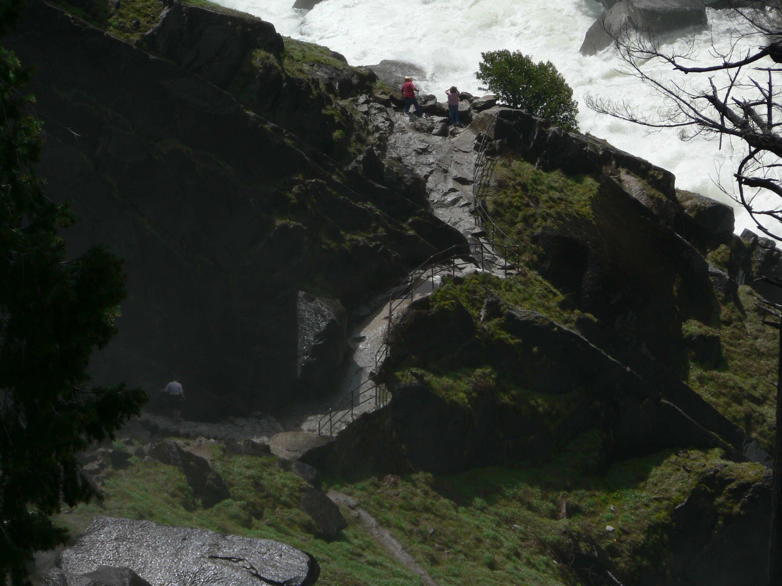 Mist Trail and hikers above the Merced River